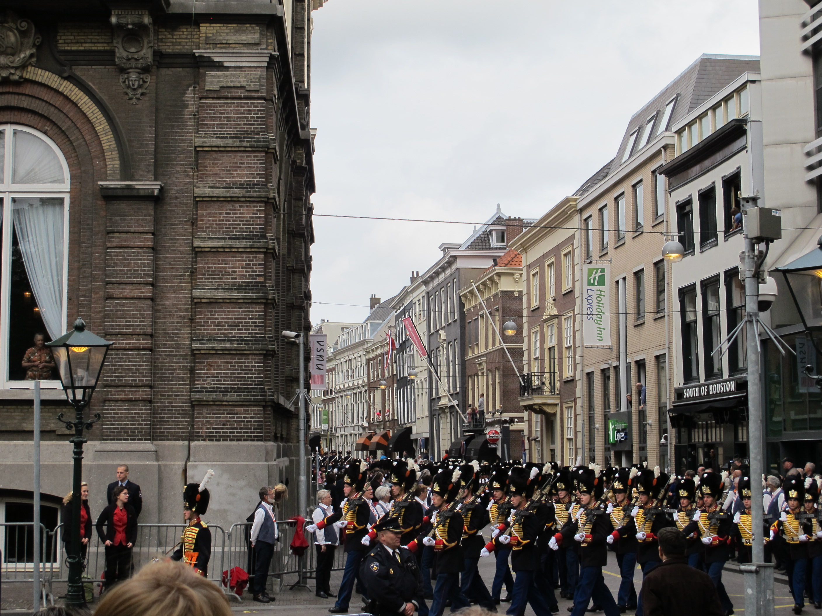 Prinsjesdag 2013 - Royal Tour at Plein, The Hague